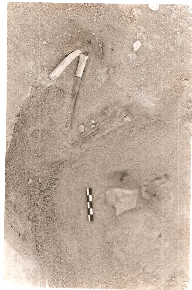 Fossil jackal limb from the Hoedjiespunt fossil site, South Africa. Photo by Lee Berger